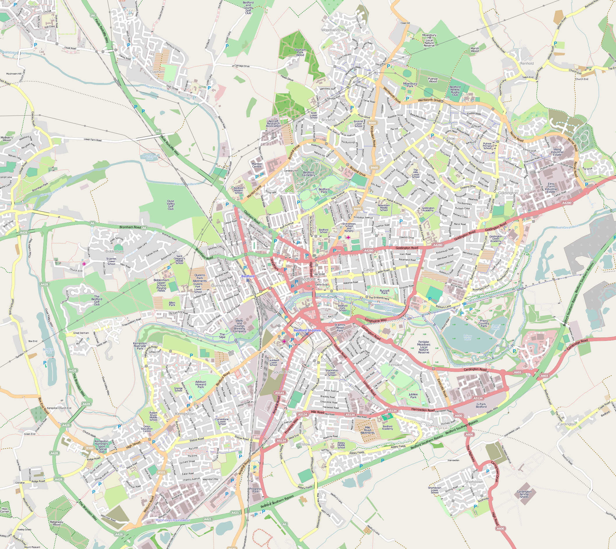 Map of Bedford Geographic limits: N: 52.1719° S: 52.102° W: -0.5313° E: -0.4036°